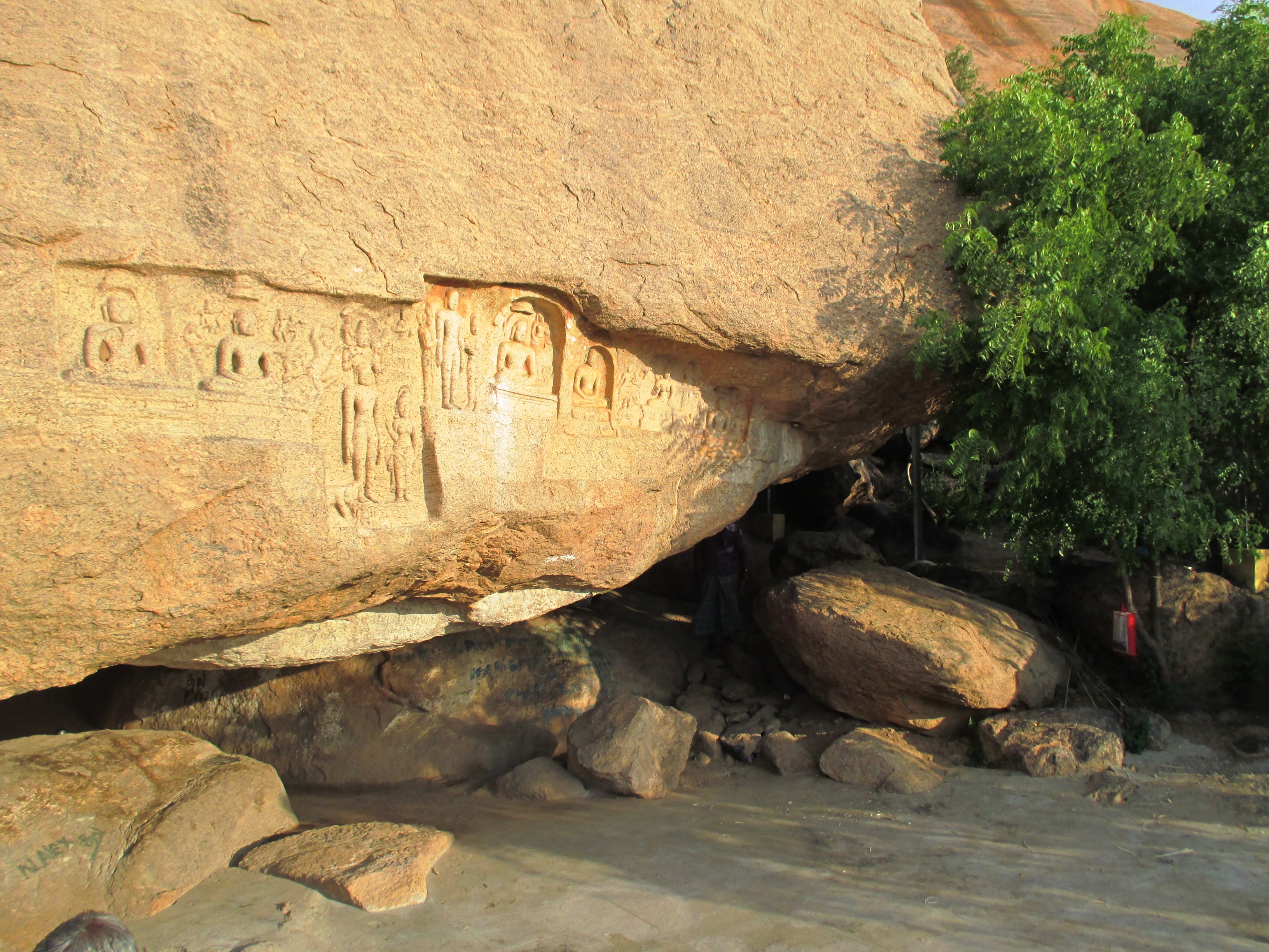 Yanmalai Jain Sculptures